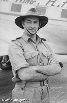 Prior to taking off from an airfield somewhere in Korea to take over his new command, the 3rd Battalion, The Royal Australian Regiment (3RAR), Lieutenant Colonel F. G. Hassett OBE chats with Major General A. J. H. Cassels CBE CBE DSO General Officer Commanding (GOC) Commonwealth Division, United Nations Forces in Korea. Hassett had a distinguished record as a soldier. He was a Lieutenant Colonel at 23 years of age in World War II, and received his OBE for his services. He gained the DSO for his handling of 3RAR in recent battles against the Communists Forces. In the background is a Douglas C47 Dakota RAAF transport plane.